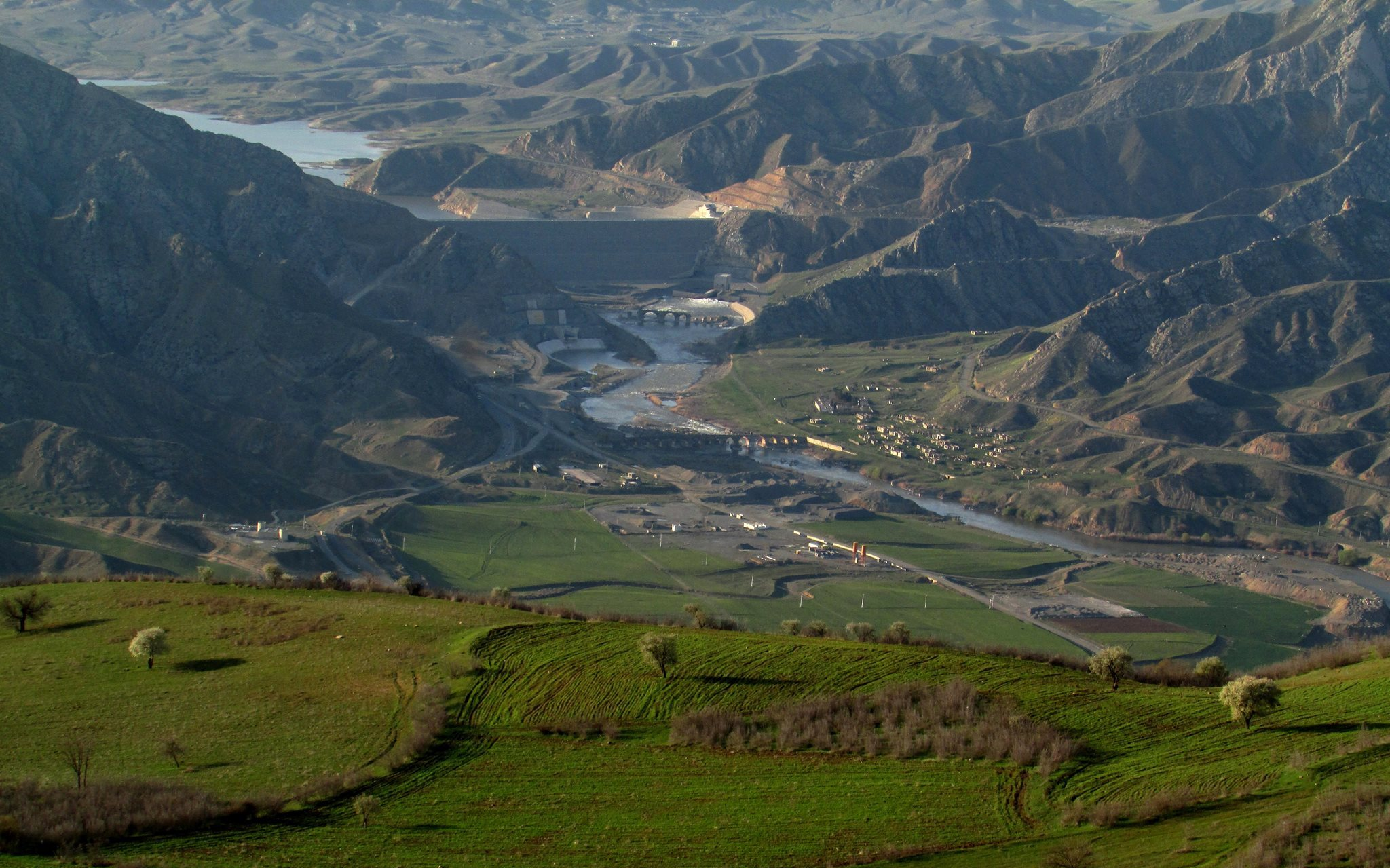 This photo was taken in Khoda Afarin County of Arasbaran region.